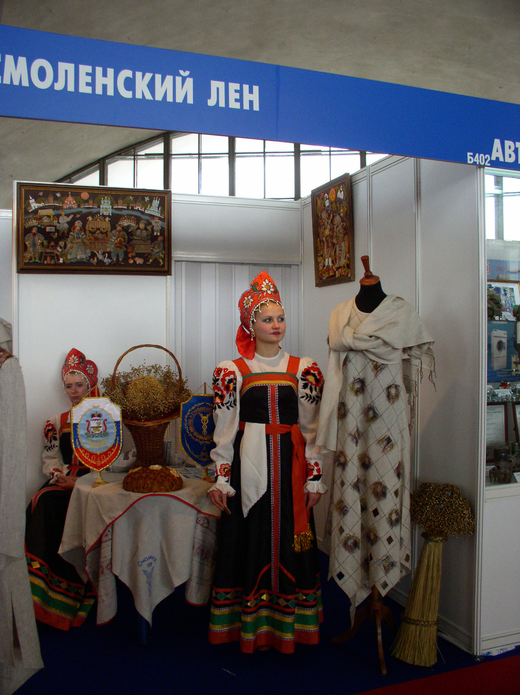 Woman in national (presumably Smolensk region) costume. Russian national exhibition, Minsk, Belarus.